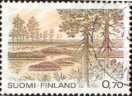 Kauhaneva bog in Finnish stamp, published in 1981 and designed by Victor Torsten Ekström.